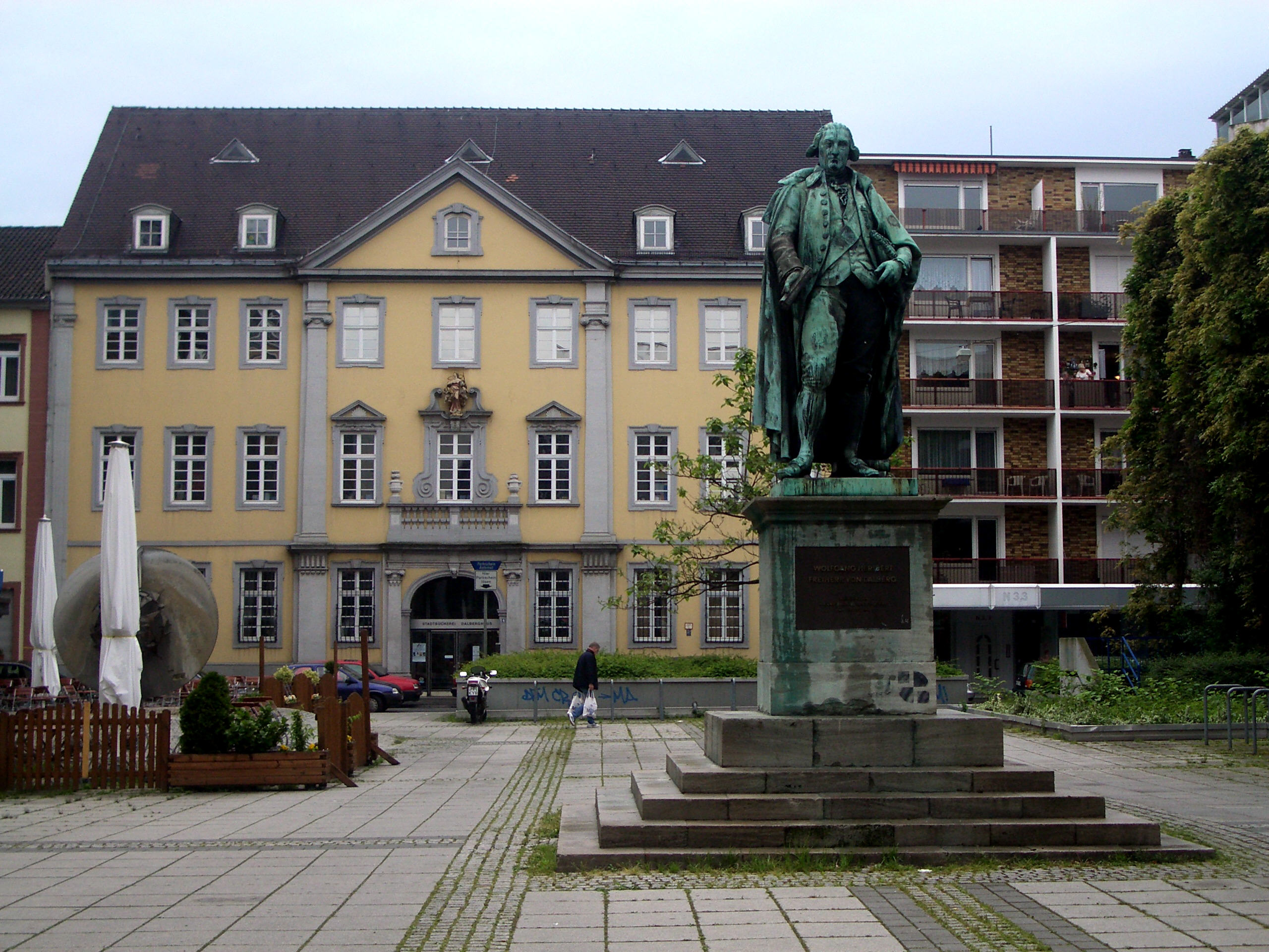 Mannheim, Germany: Dalberghaus and monument to Wolfgang Heribert Dalberg (theatre director)